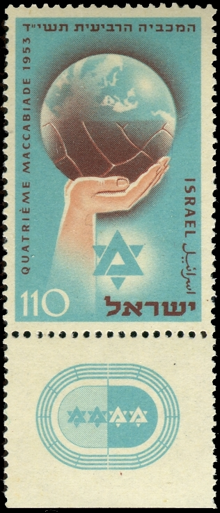 Israeli postal stamp commemorating the Fourth Maccabiah Games held in 1953 - 110 mil